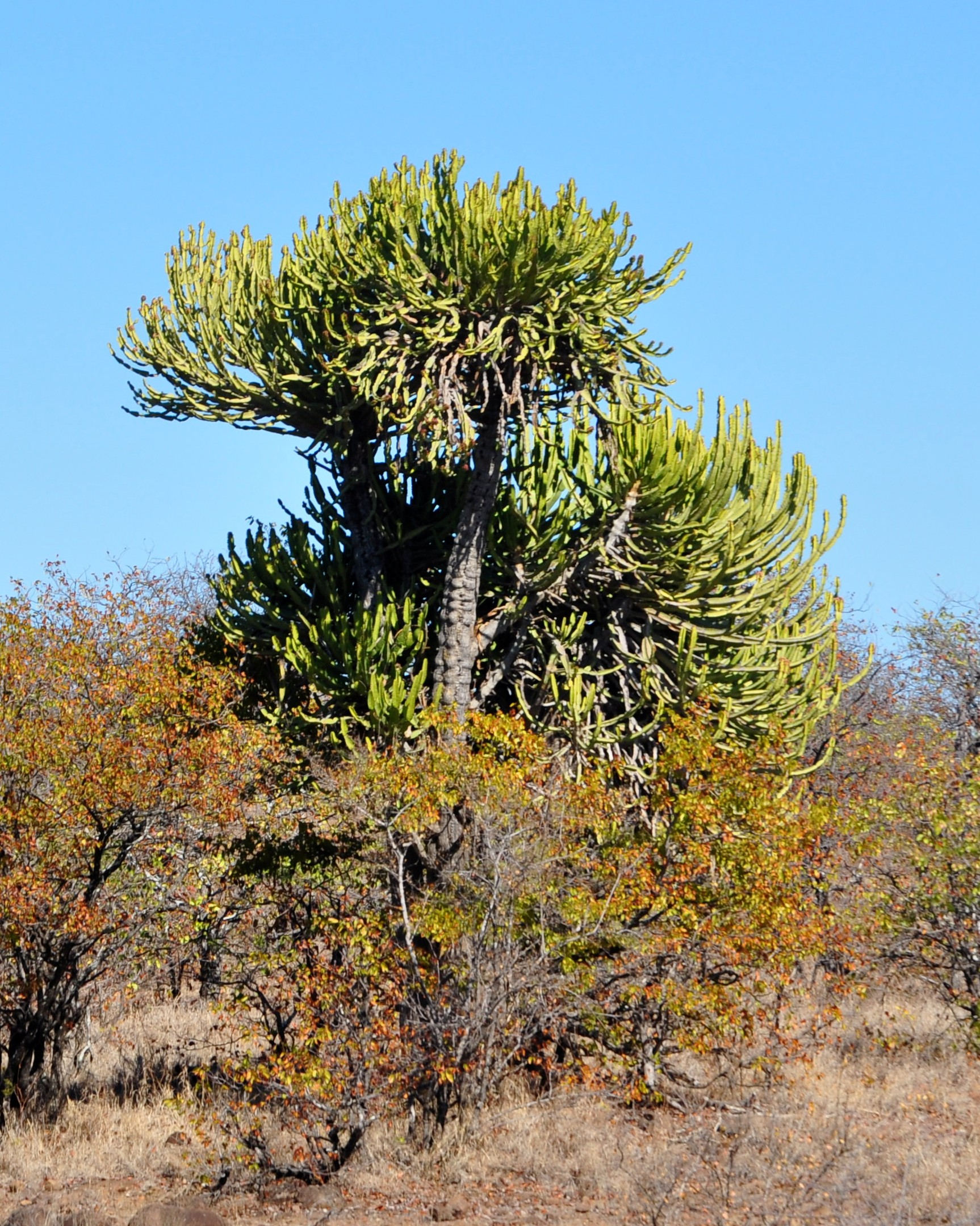 Lebombo euphorbia near Olifants camp, Kruger National Park